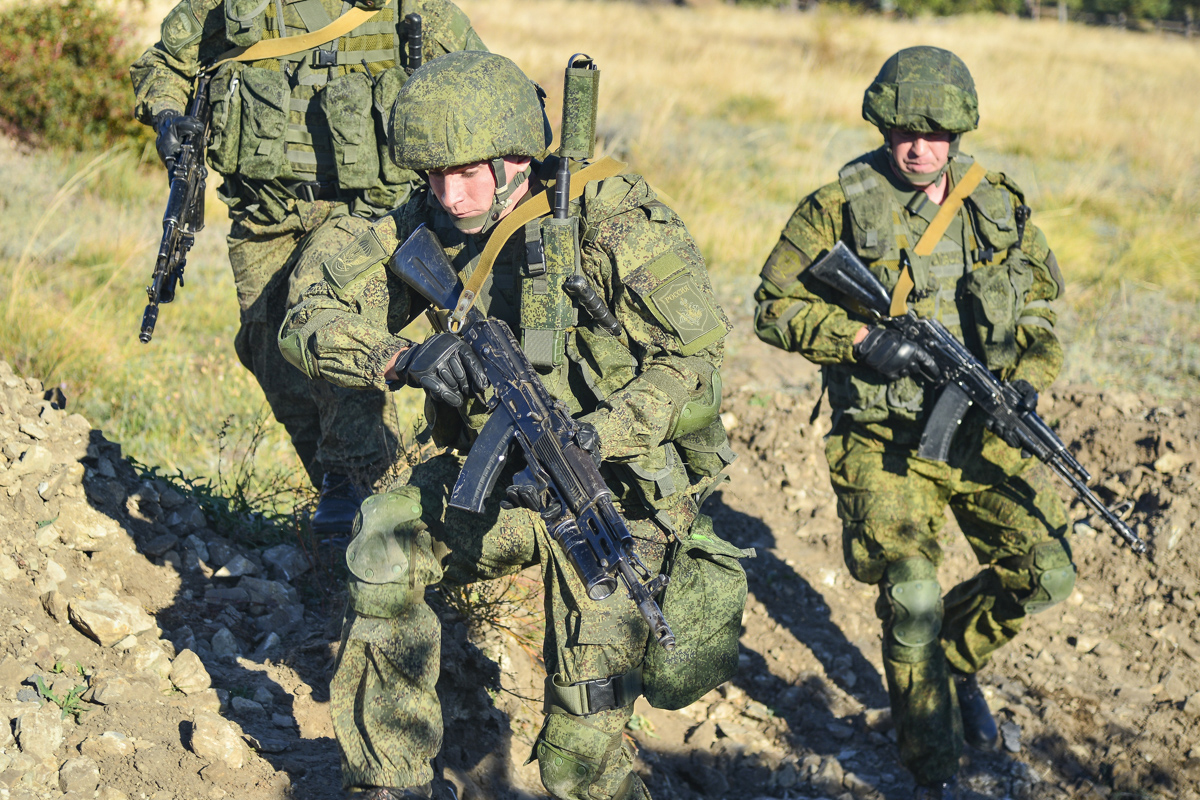 Russian 56th Separate Guards Air Assault Brigade.